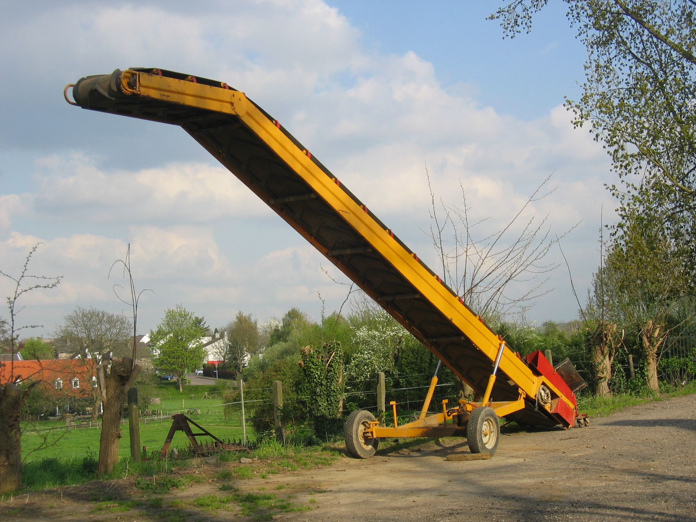 A Jacob's ladder or conveyor belt as used to transport potatoes into trucks, photographed near Wolder Maastricht, Netherlands